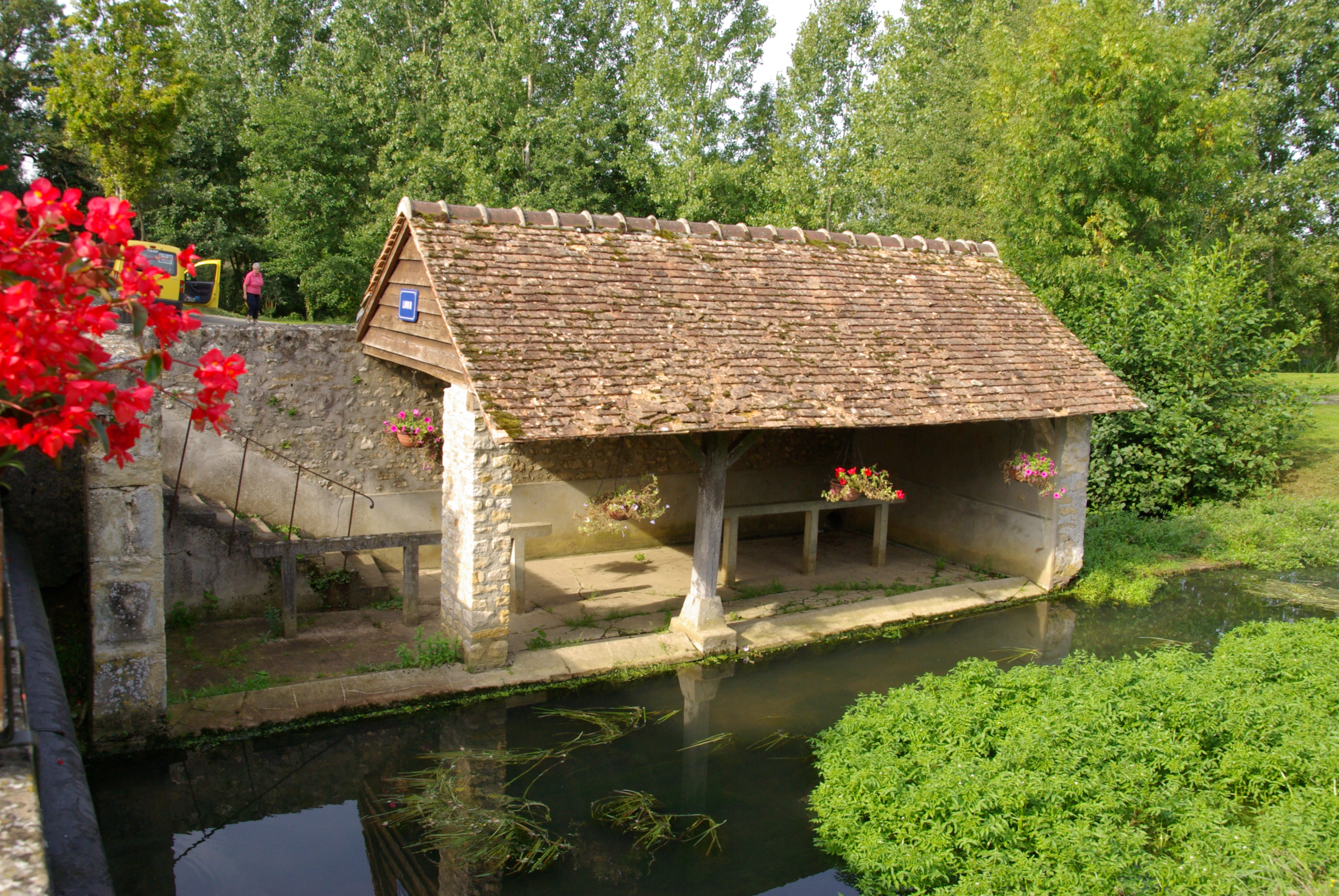 The wash along the Gee in Maigne